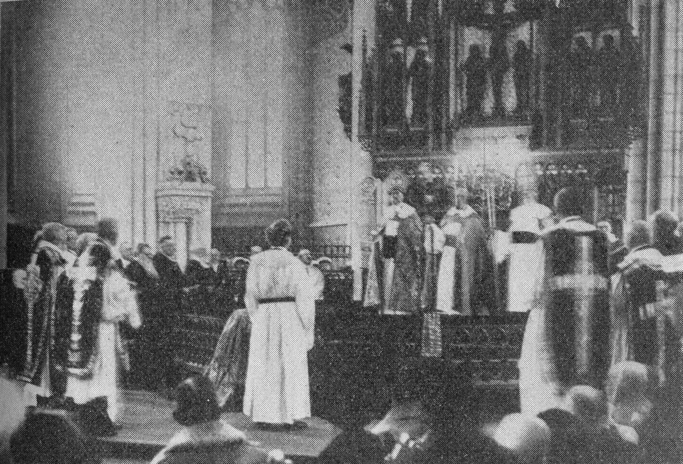 Nathan Söderlom is ordained as archbishop of the Church of Sweden.